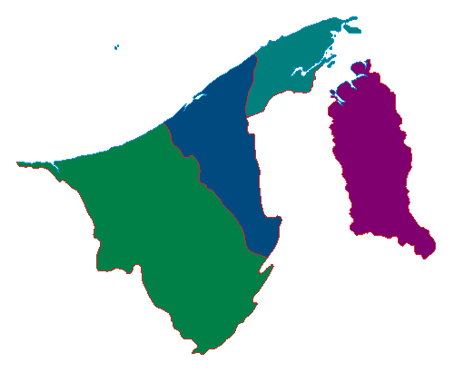 Map of Brunei and its districts.